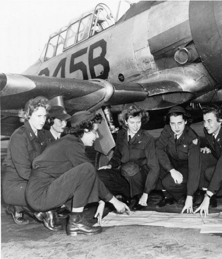 WASP (Women Air Force Service Pilot) students studying their flight plan for the day